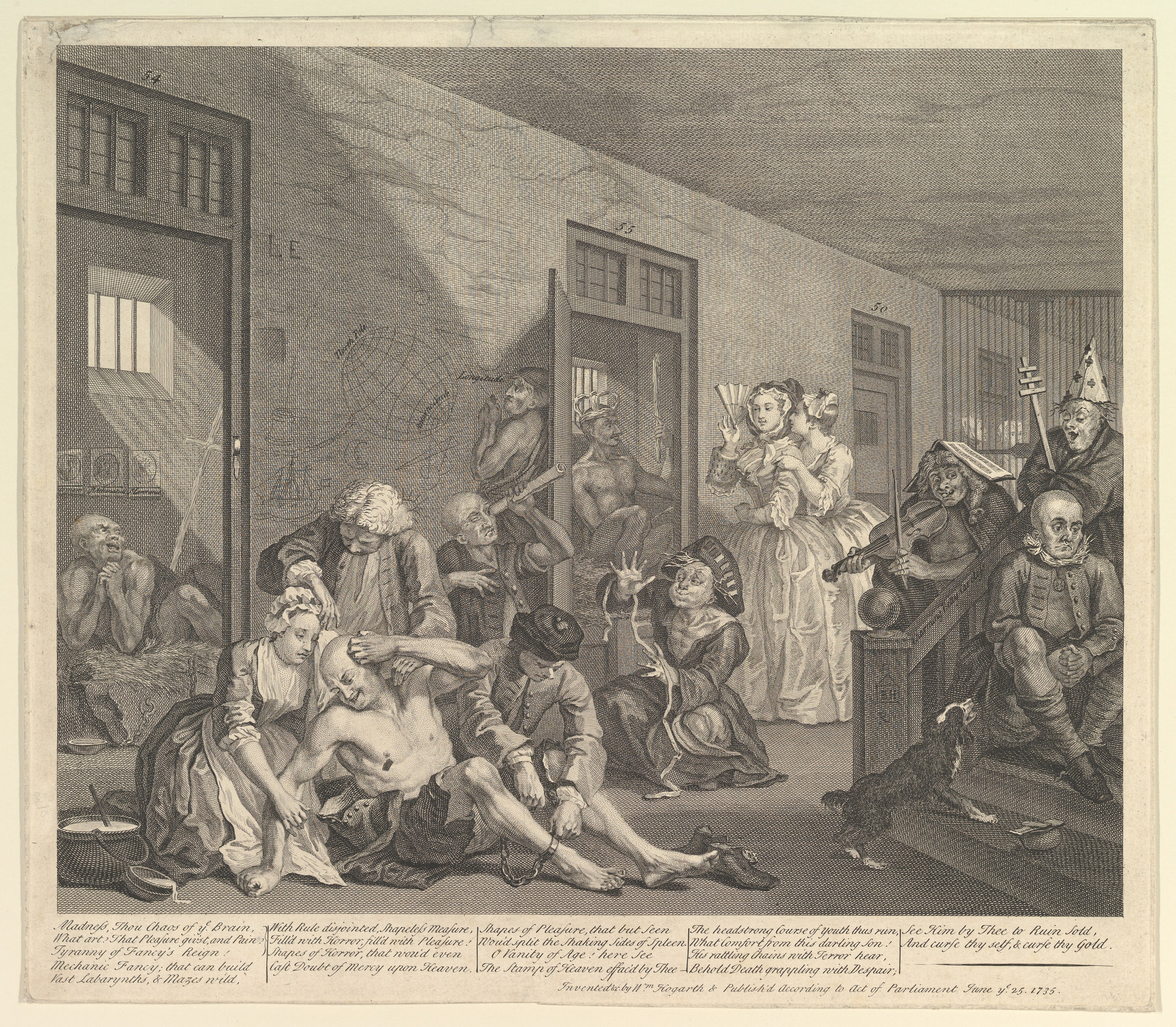 Print; Prints